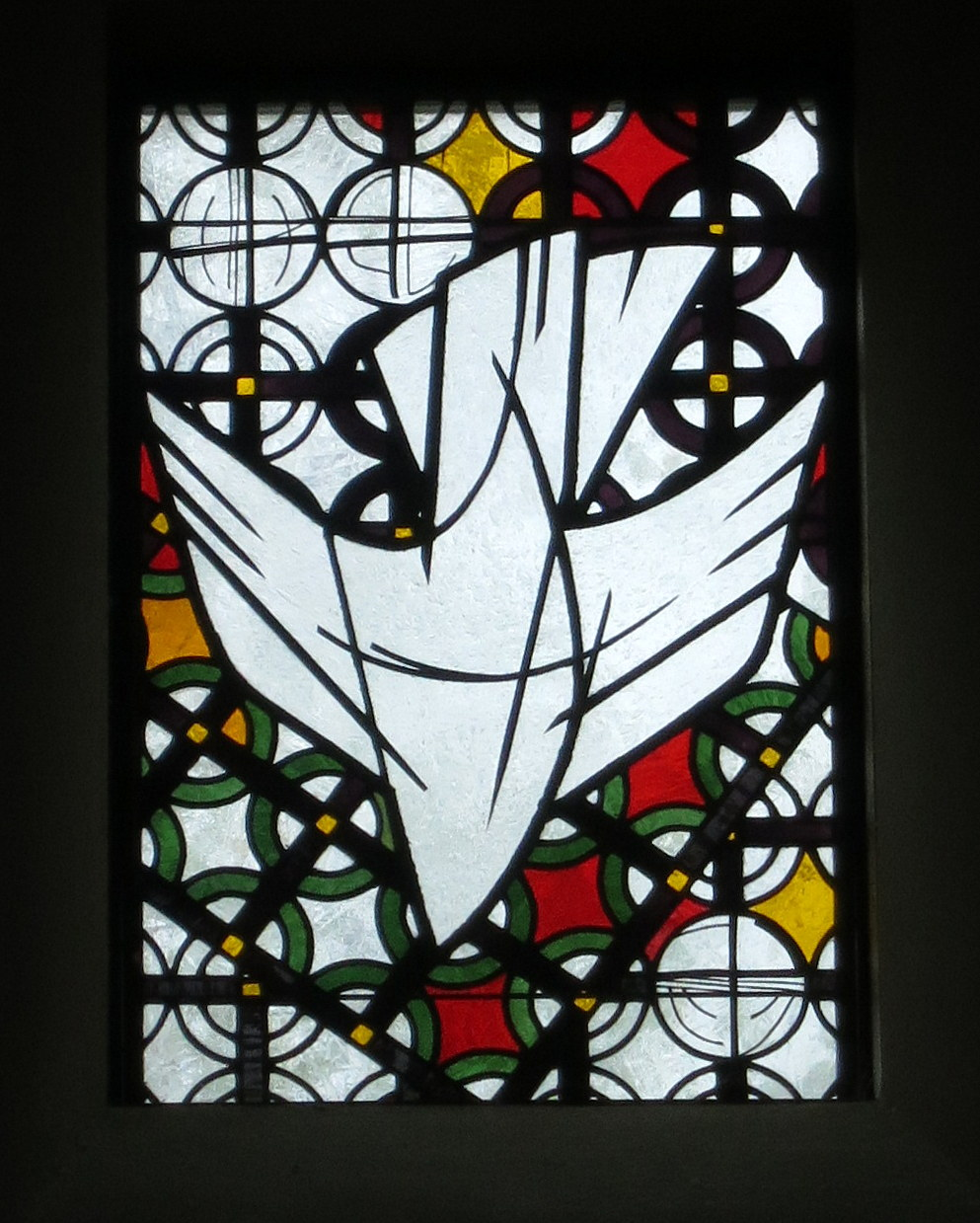 Saint Elizabeth Ann Seton Parish (Pickerington, Ohio) - stained glass, The Holy Spirit